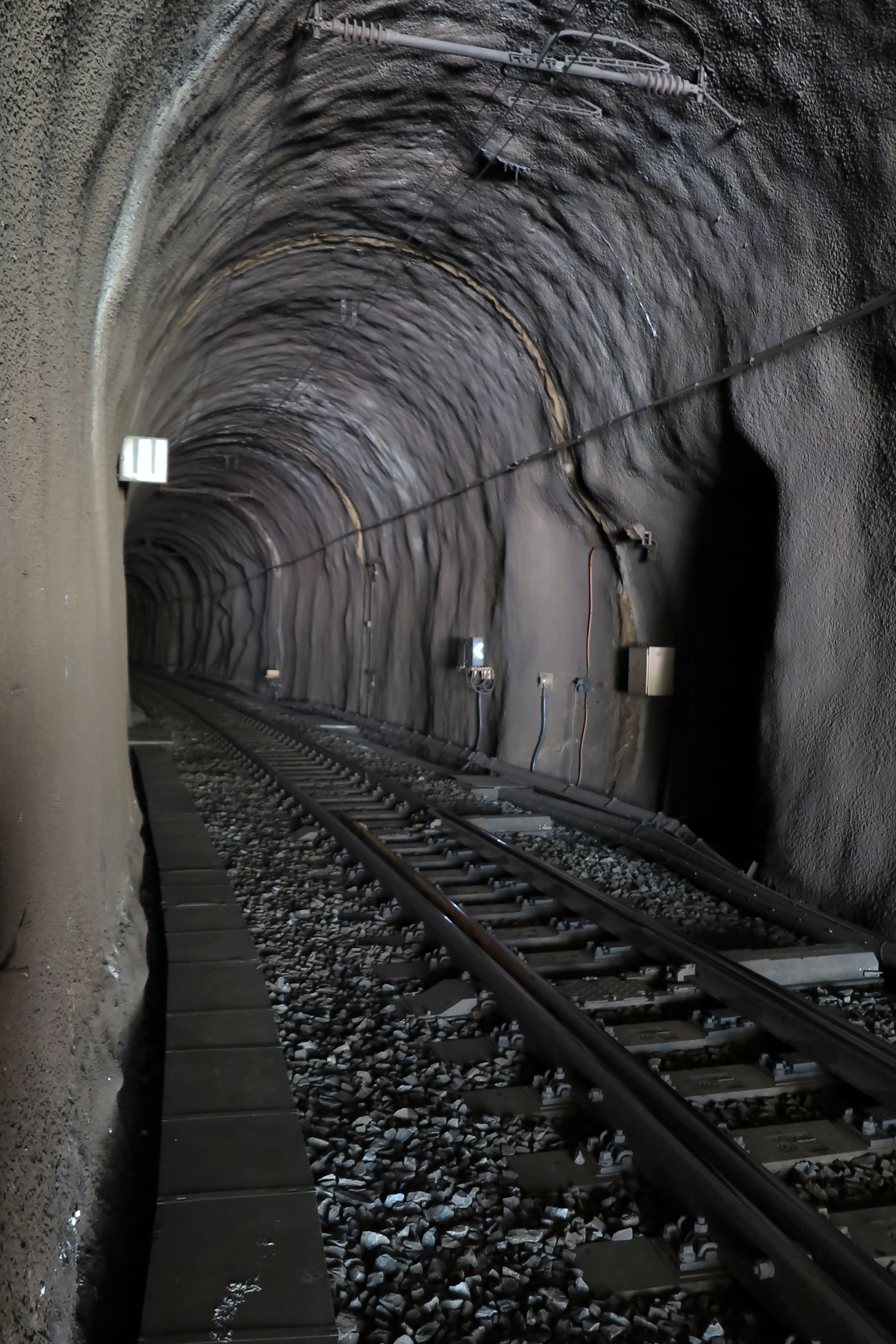 The beginning of the tunnel of the Matterhorn Gotthard Bahn at Realp. The tunnel has only one track, but there are two automatic passing places at the tunnel stations 'Geren' 5,7 km after Oberwald and at 'Rotondo' 4,9 km before Realp. Canton of Uri, Switzerland, Aug 4, 2014.